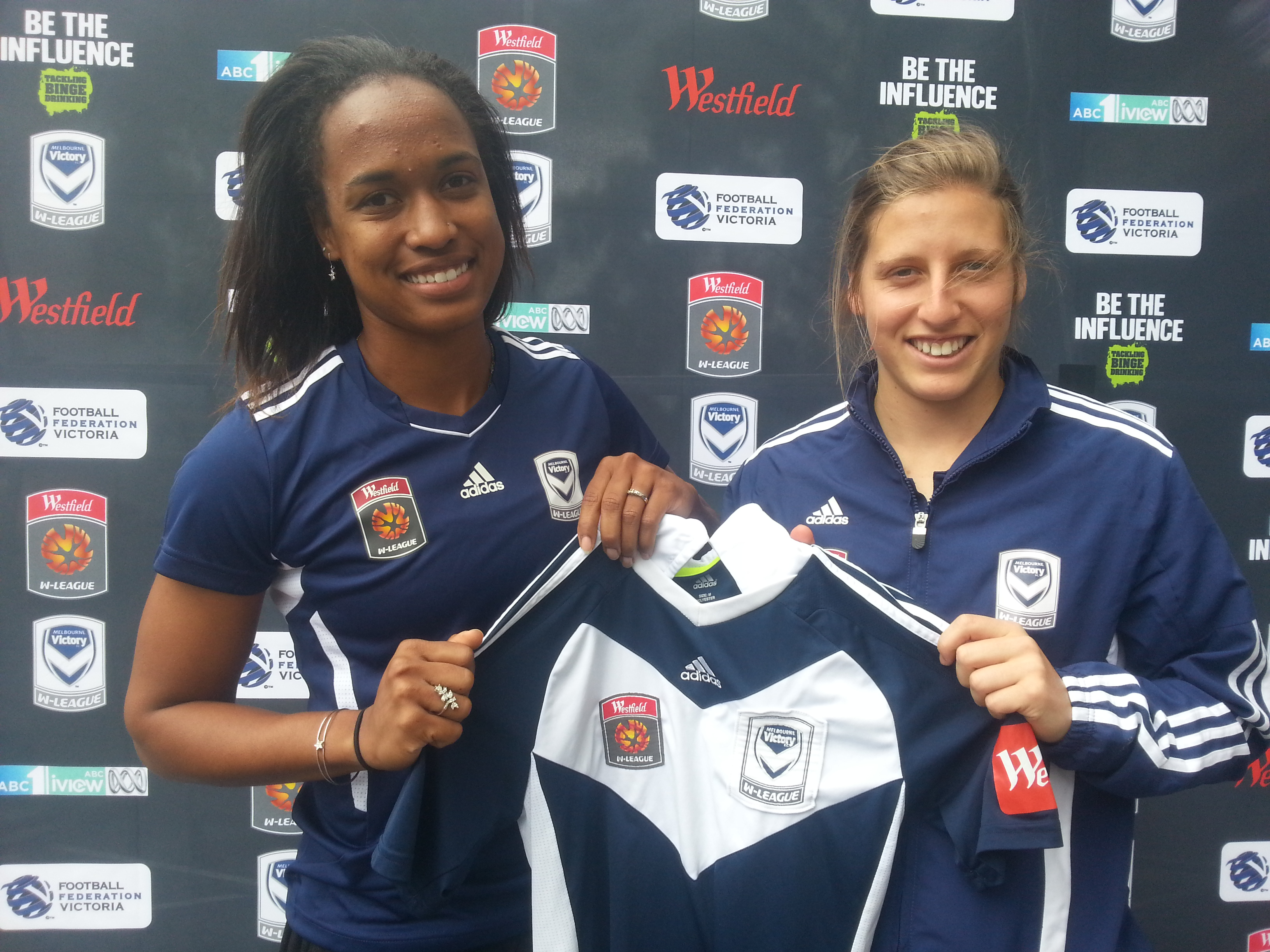 New Melbourne Victory W-League signing Jessica McDonald, is presented with a jersey by New Zealand international Rebekah Stott.